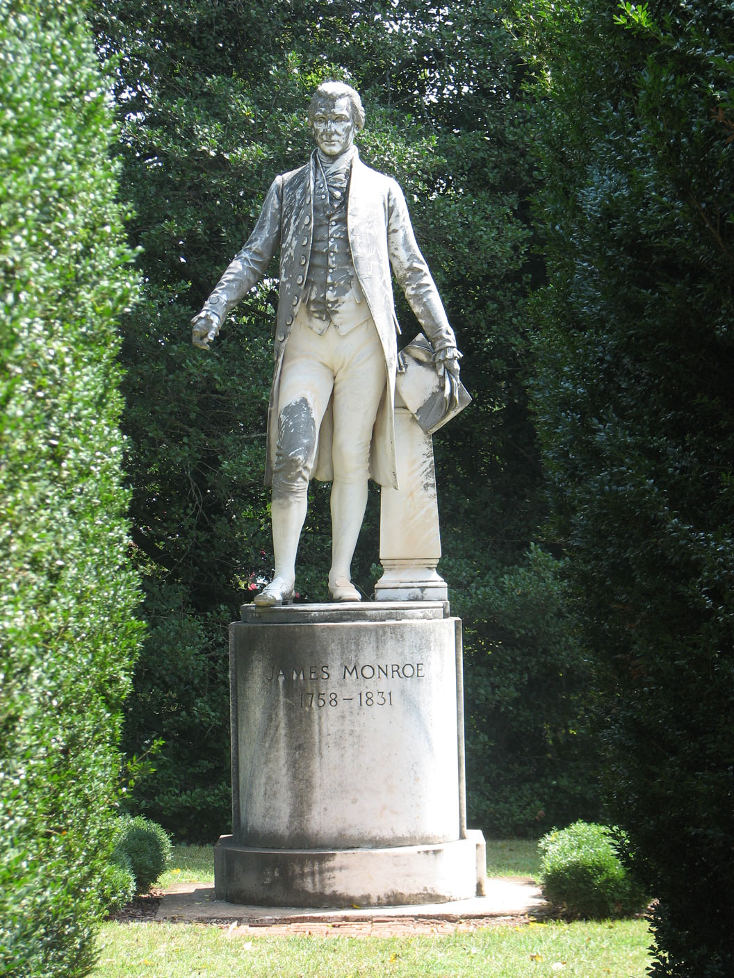 Statue of James Monroe on the grounds of Ash Lawn-Highland, his Albemarle County, Virginia, home which is owned, cared for and operated by his alma mater, the College of William and Mary.